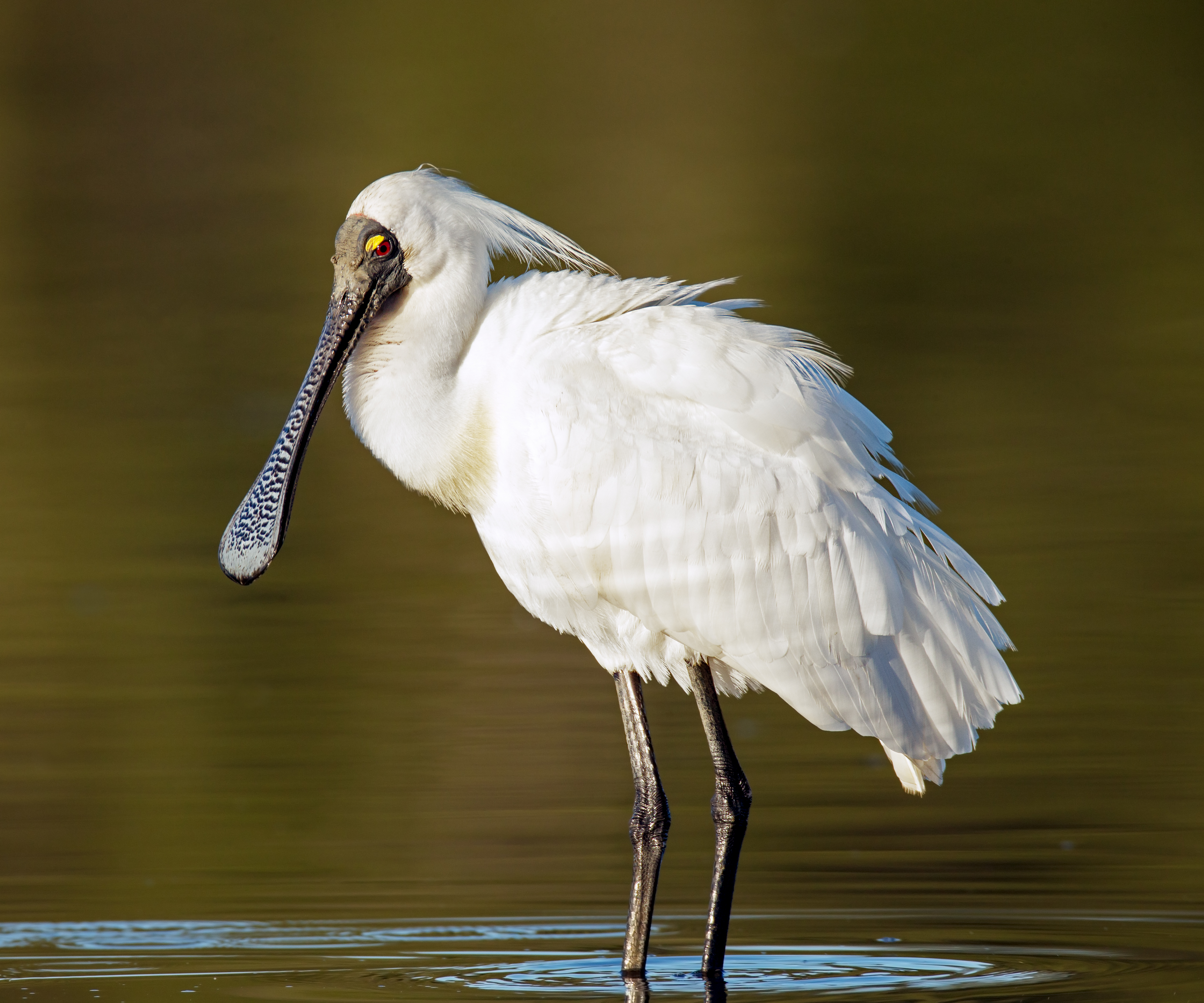 Royal Spoonbill (Platalea regia), Sydney Olympic Park, New South Wales, Australia